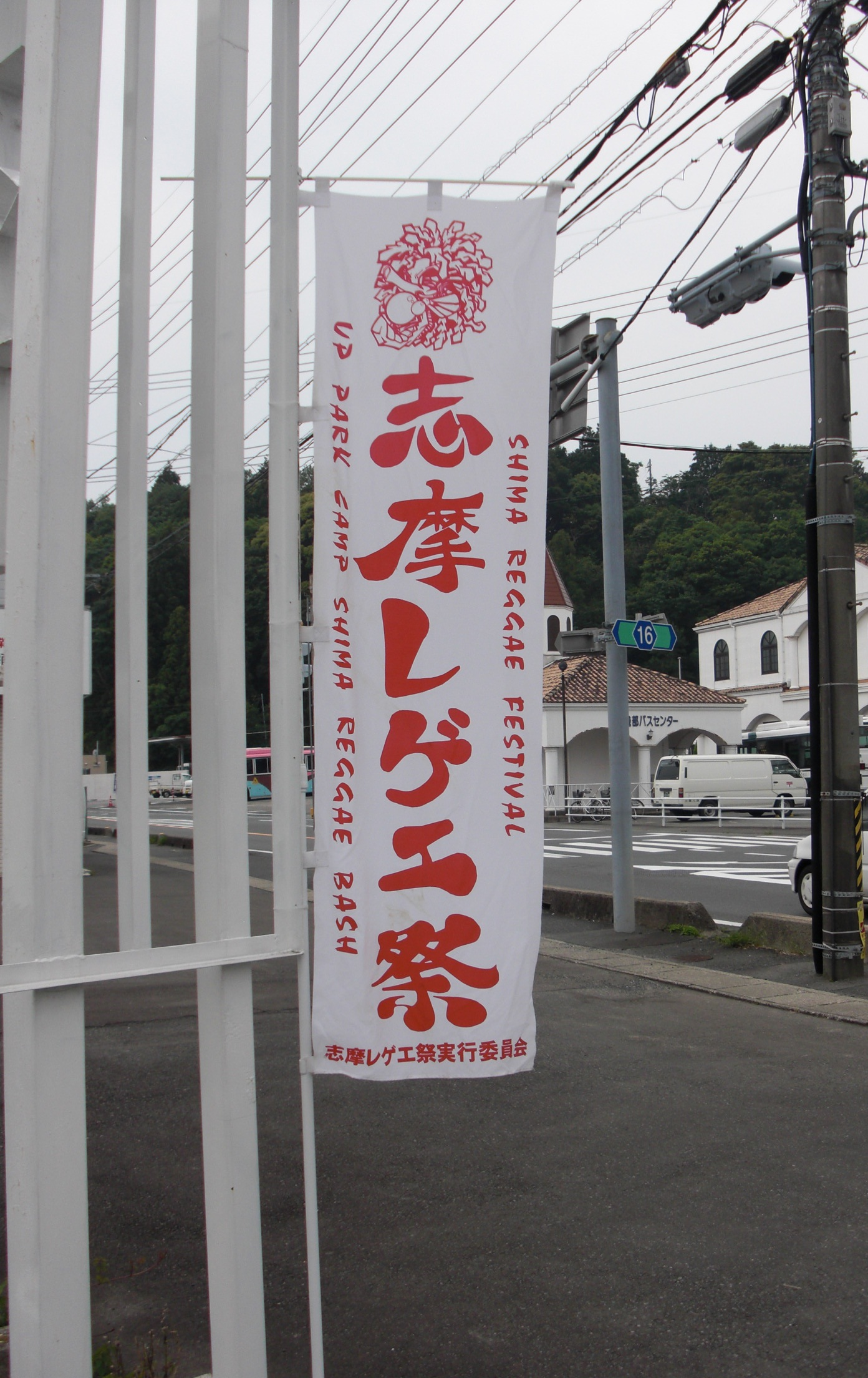 This is a banner of the Shima Reggae Bash which is in Isobecho-Hasama, Shima, Mie, Japan.